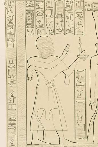 Drawing of a relief depicting the Theban High Priest of Amun Osorkon B (the future pharaoh Osorkon III), holding a small Maat figure. The inscription above list his ancestry: he was the son of queen Karomama II (and thus of pharaoh Takelot II), herself daughter of the Theban High Priest of Amun Nimlot C, himself son of pharaoh Osorkon II. In the far left, the cartouche of Takelot II is also visible. From Karnak, Great Temple Forecourt, angle C. Reign of Takelot II, 23rd Dynasty, Third Intermediate Period.